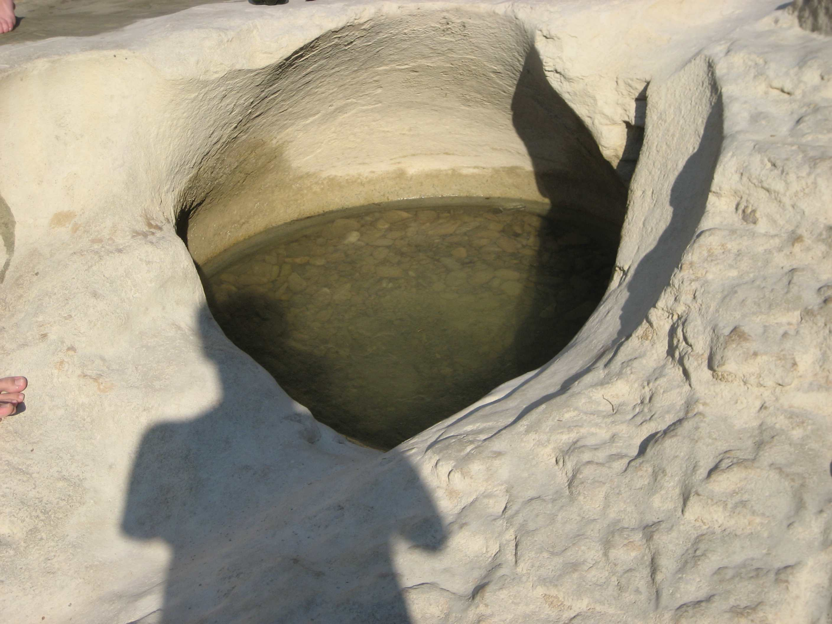 River Mirna, near Kotli, Croatia